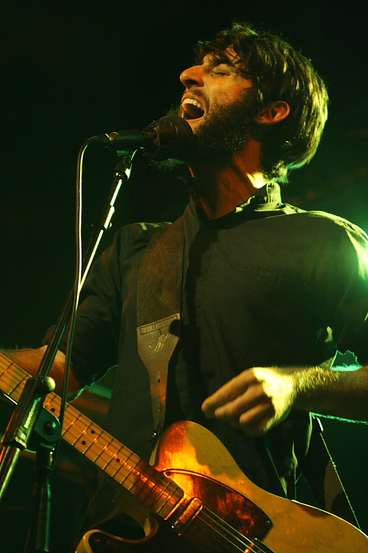 Murder By Death live in Oxford, UK.